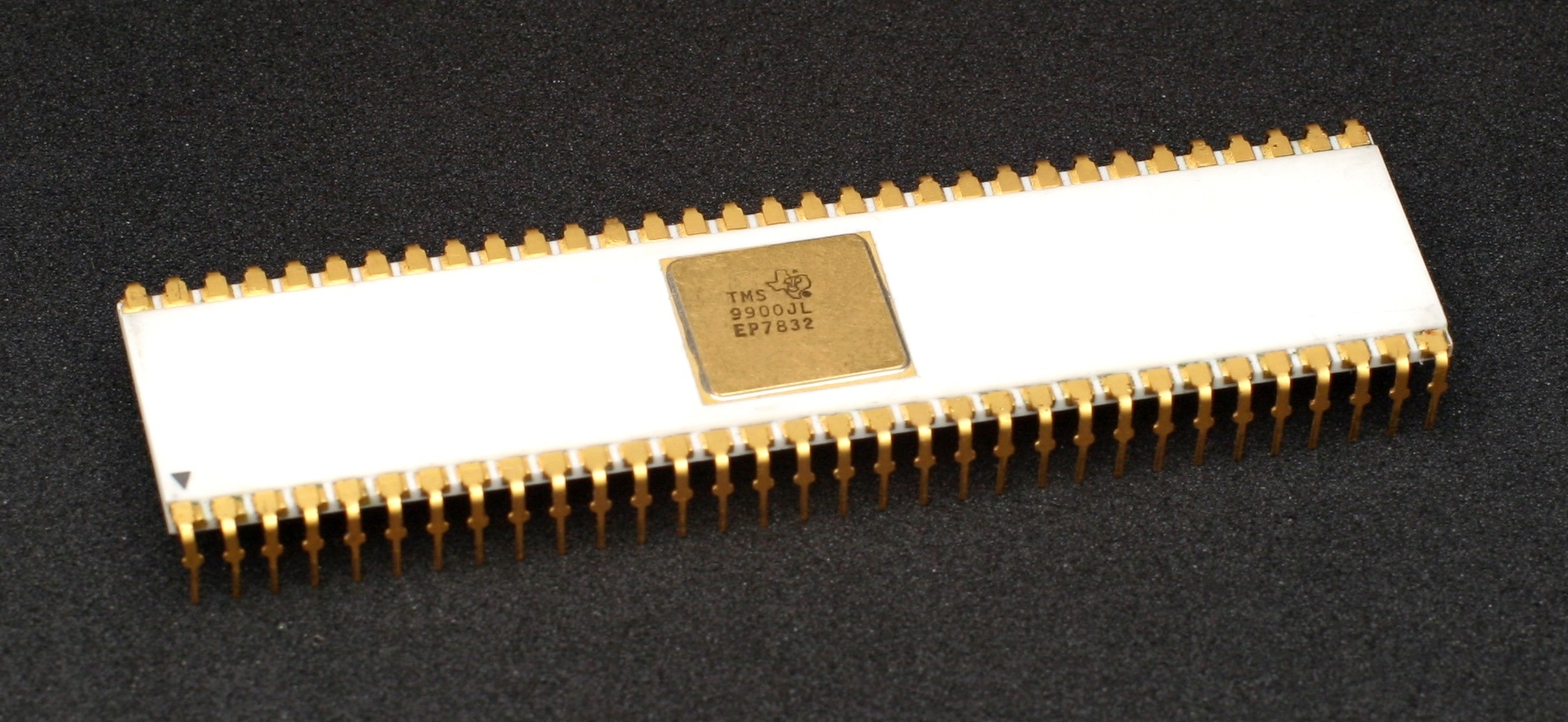 TMS9900JL in ceramic package. The pins on this package were coated with 24 carat (100%) gold to prevent oxidation and ensure good electrical connections.